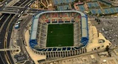 Jerusalem from the air, by the Israeli Police Airborne unit: Teddy Stadium and Malkha Arena, Jerusalem